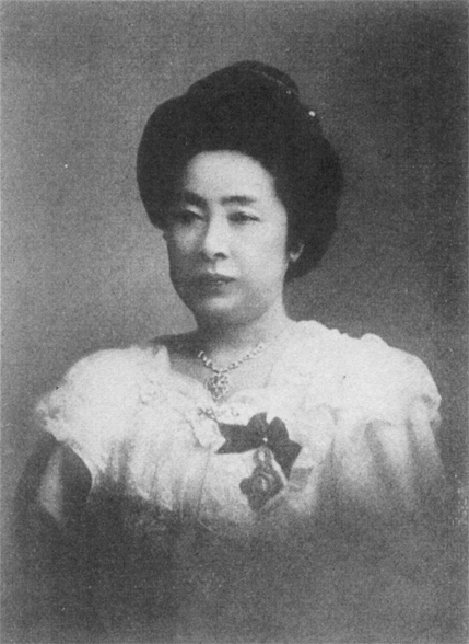 Utako Shimoda, director of the Gakushuin Girls' Division.